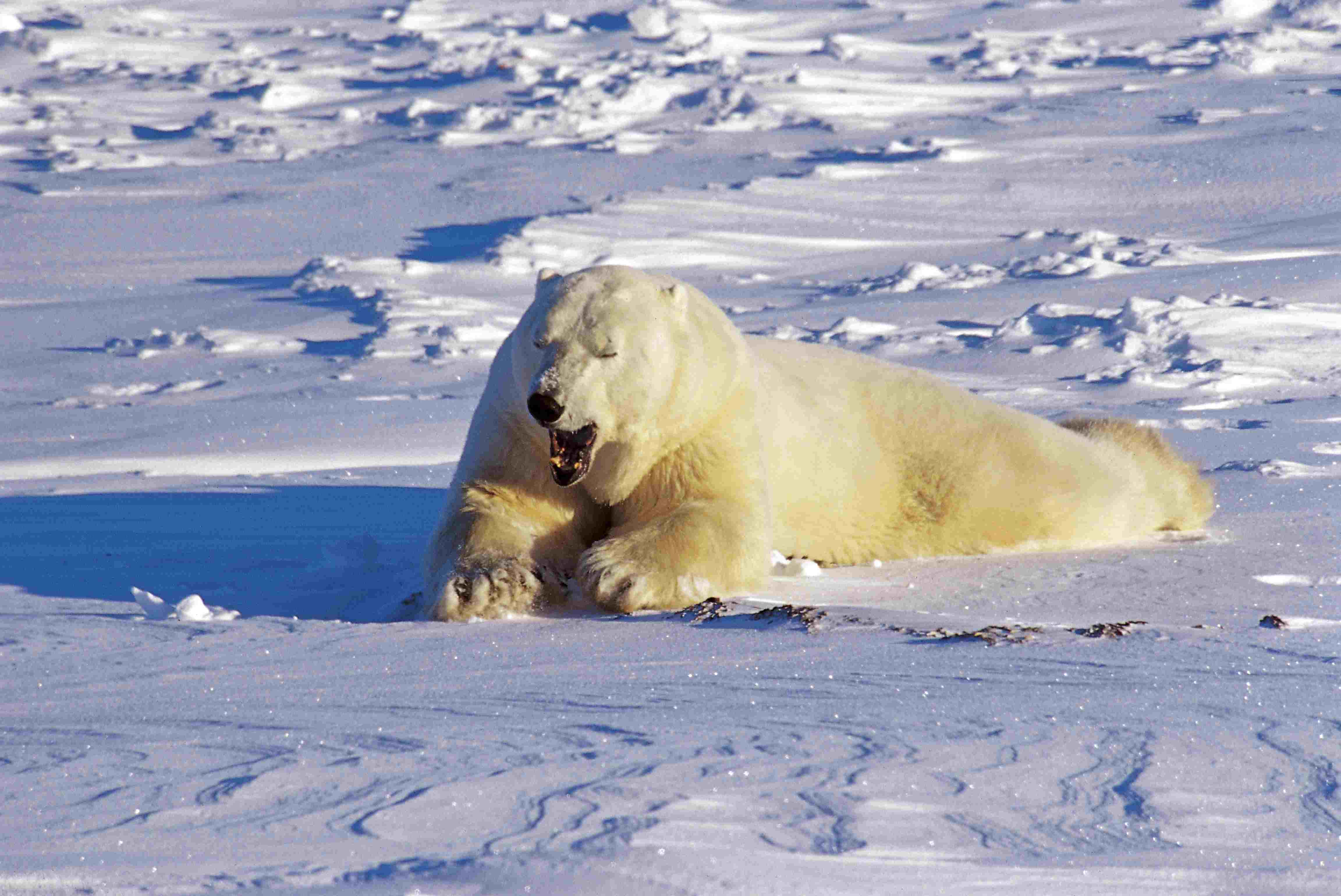 Yawning lazy polar bear near Cape Churchill (Wapusk National Park, Manitoba, Canada)